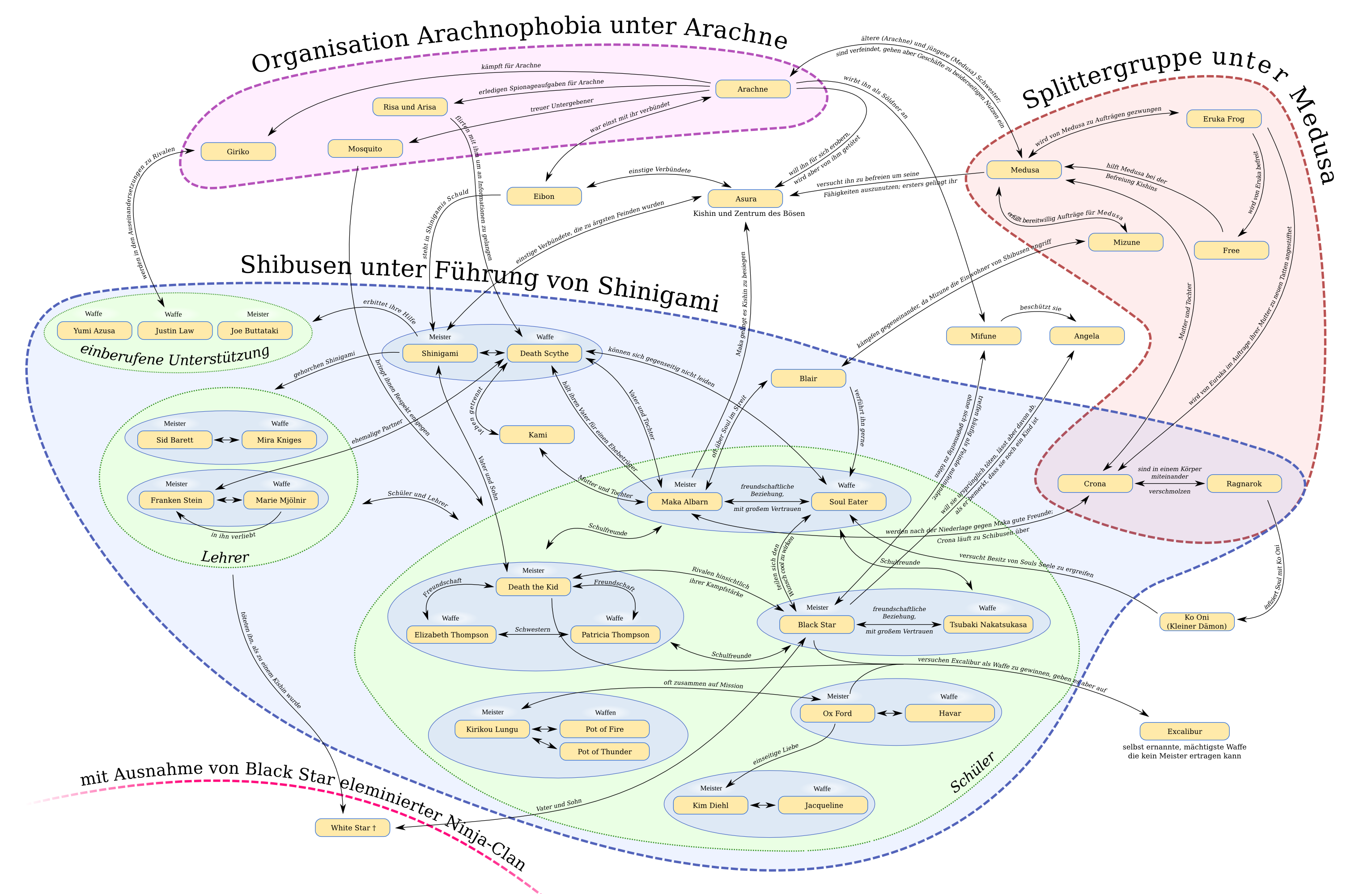 Character constellation of the manga and anime Soul Eater